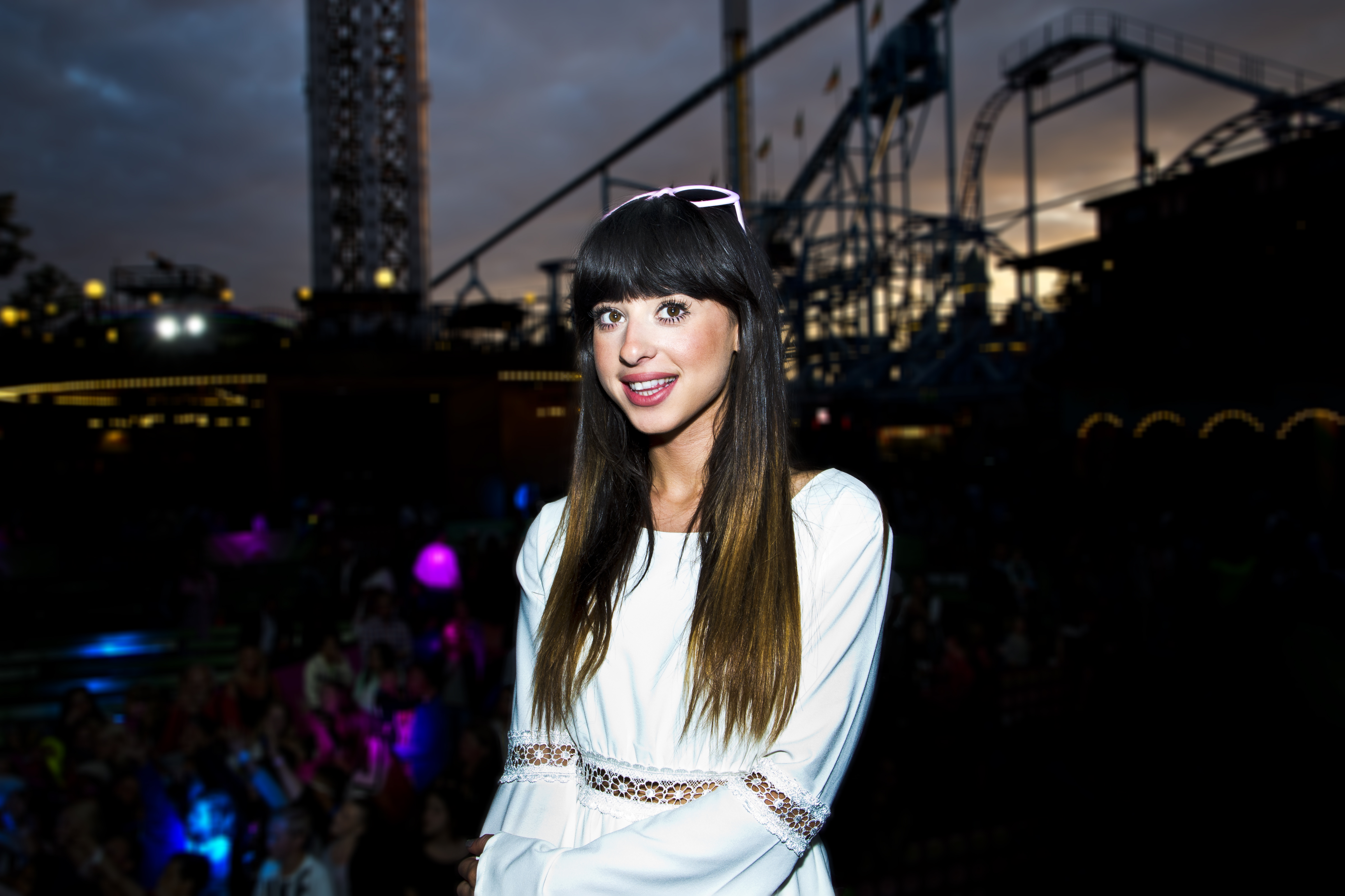 Foxes visit Sommarkrysset in Sweden, Stockholm, Gröna Lund.